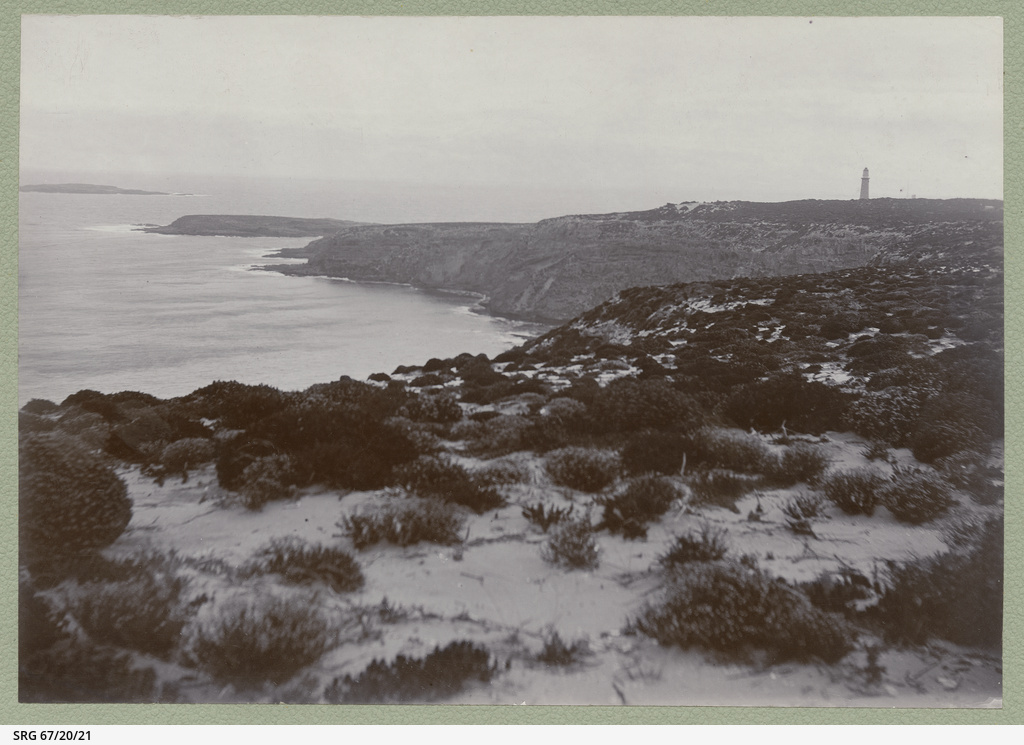 'Cape Du Couedic 1912, south coast of Kangaroo Island and the two Casuarina Islands, with view of coast vegetation in the foreground'